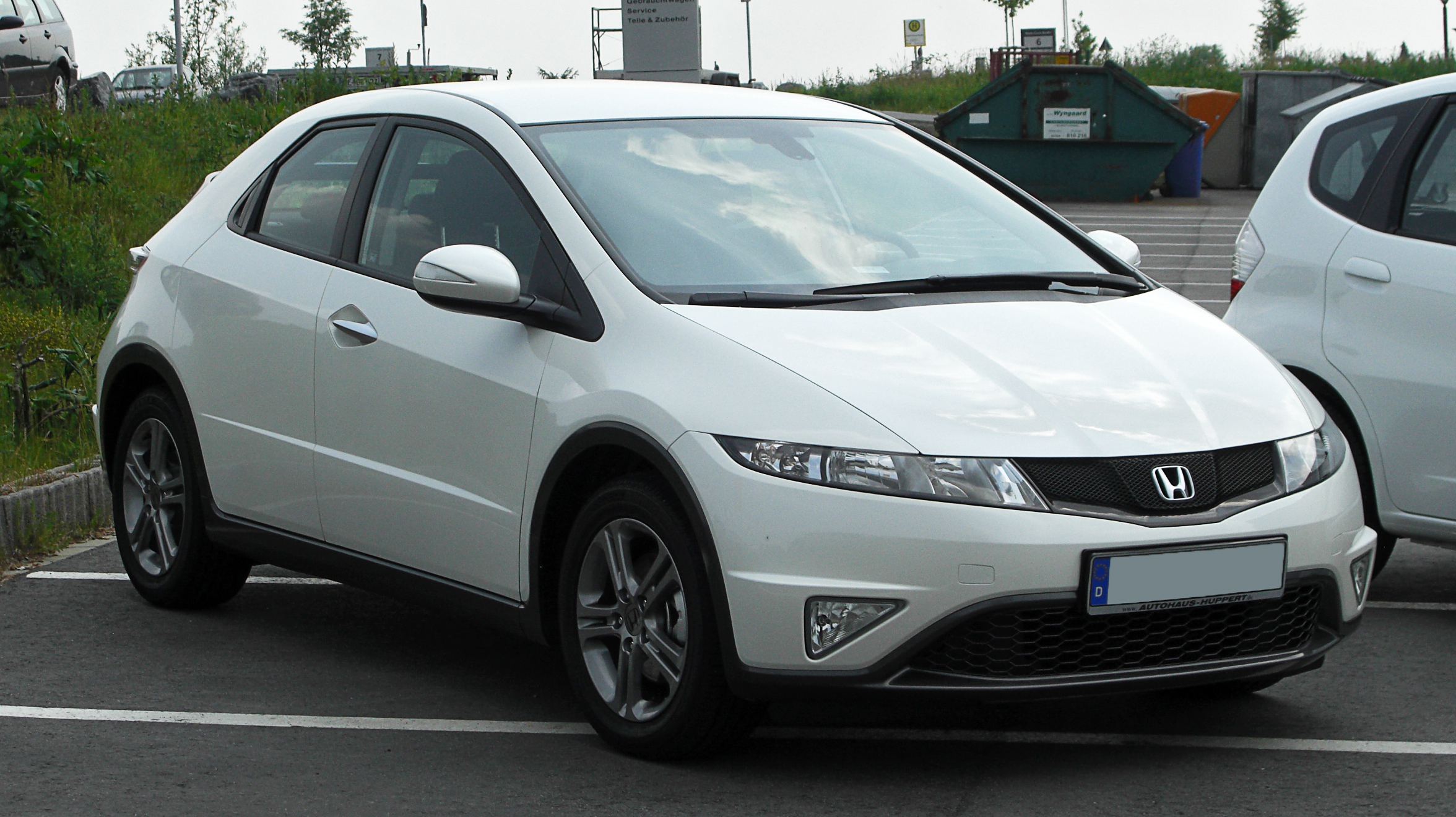 Honda Civic 1.8 50 Jahre Edition (VIII, Facelift)